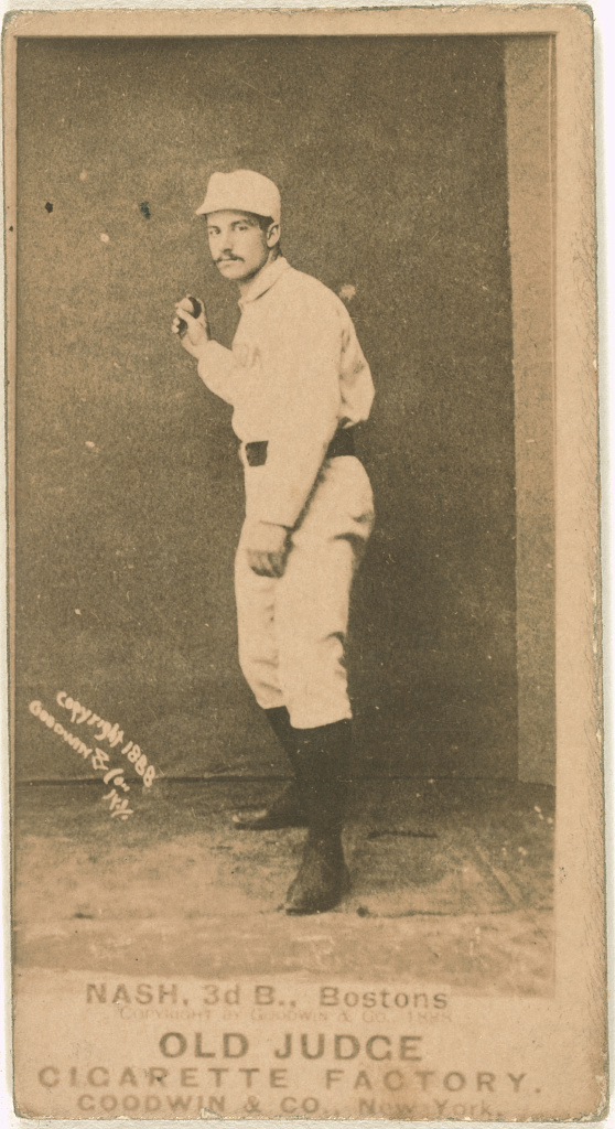 Title: Billy Nash, Boston Beaneaters, baseball card portrait Abstract/medium: 1 photographic print : albumen.